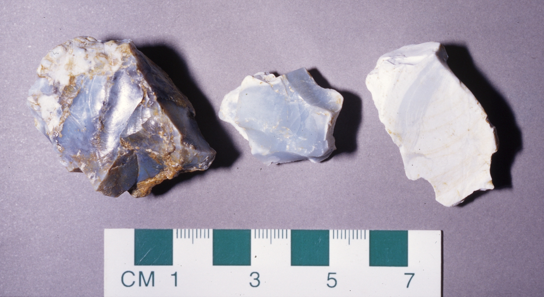 Macroscopic white to blue samples of halloysite, sampled in Beez (Namur, Belgium)